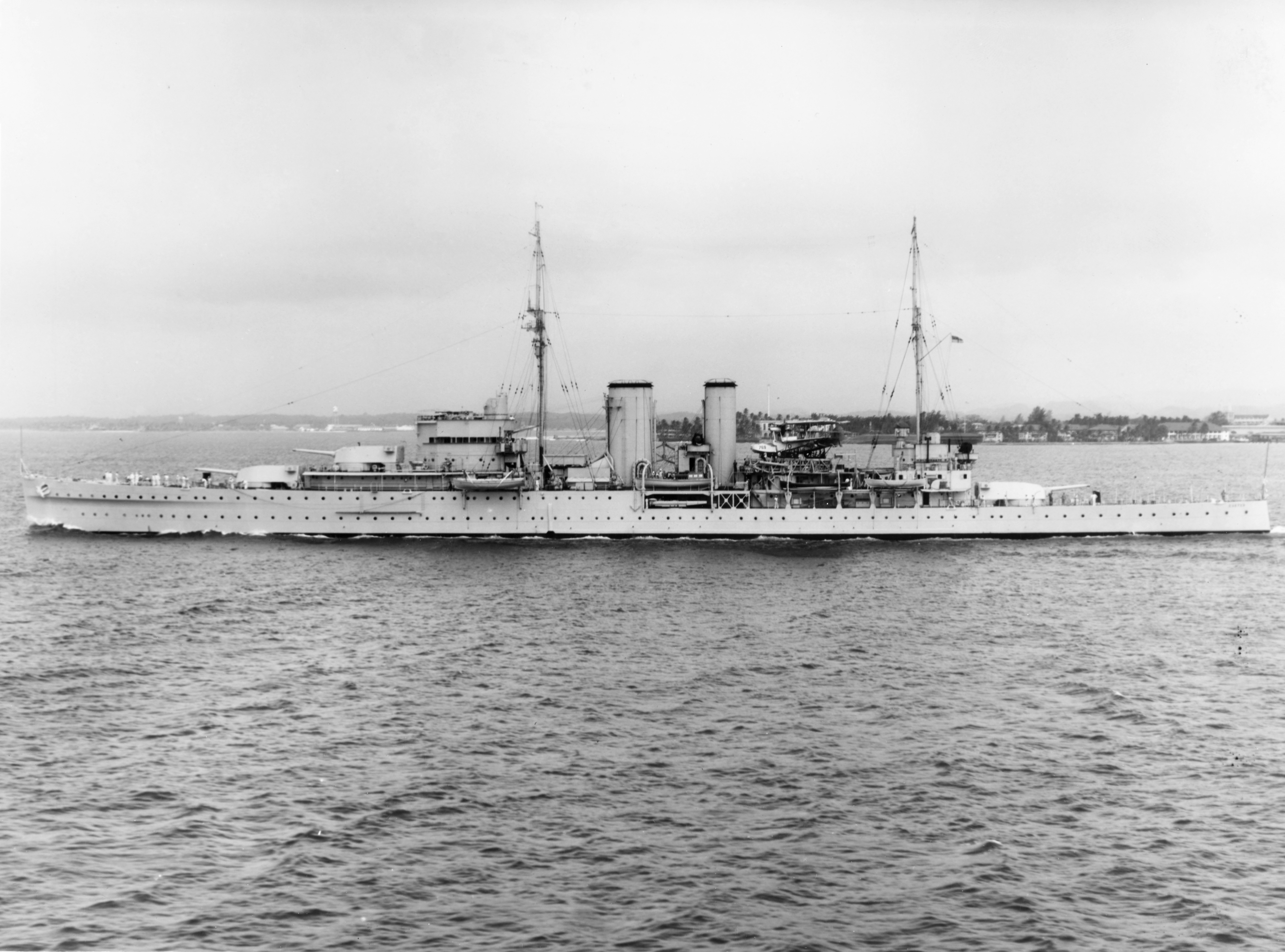 The Royal Navy heavy cruiser HMS Exeter (68) off Coco Solo, Panama Canal Zone, circa in 1939.